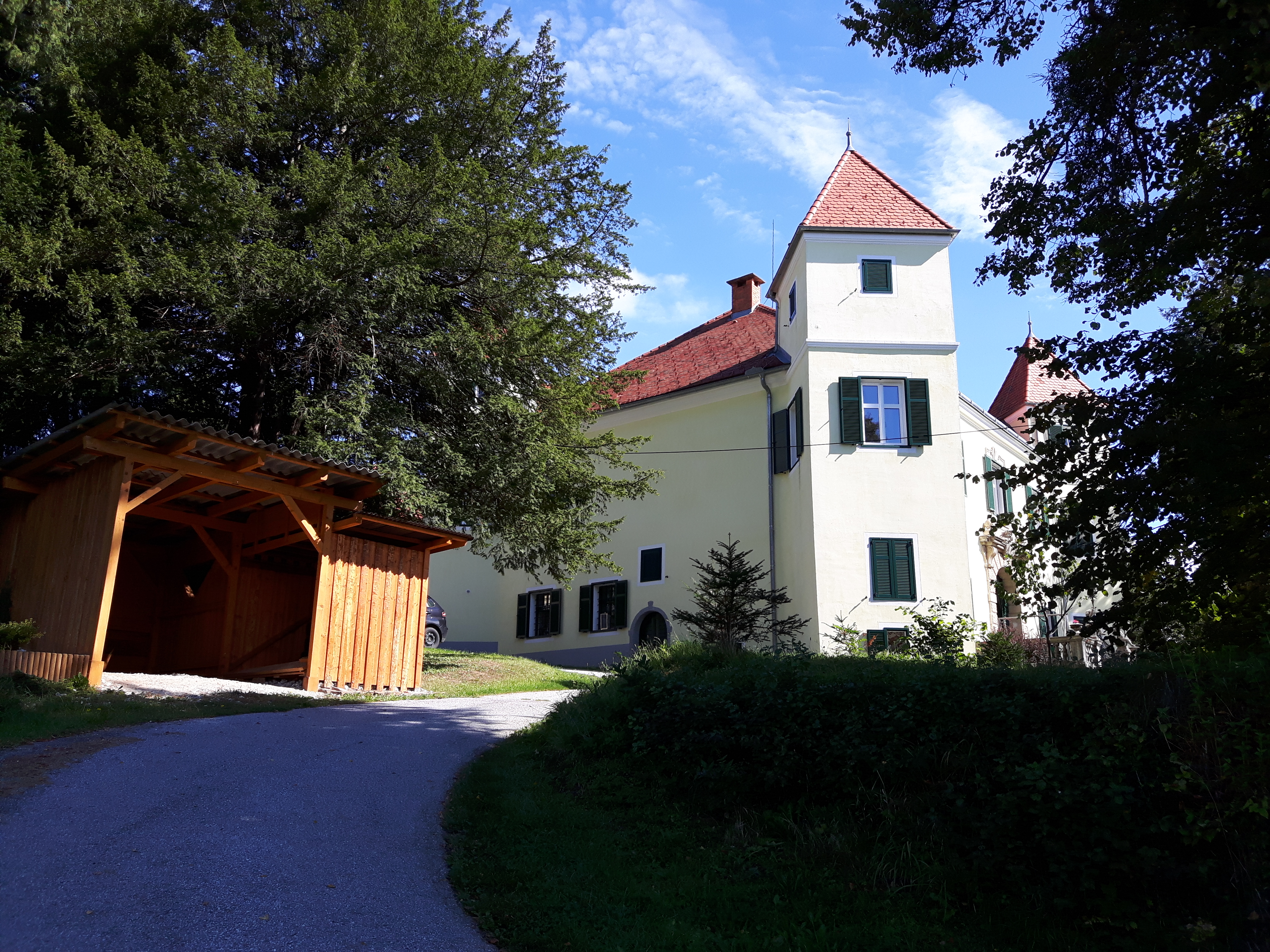 The Schloss Hohenburg in St. Johann ob Hohenburg, Styria